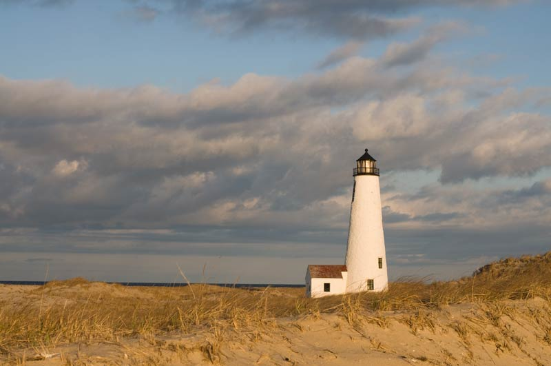 Great Point Light, Nantucket, just after dawn